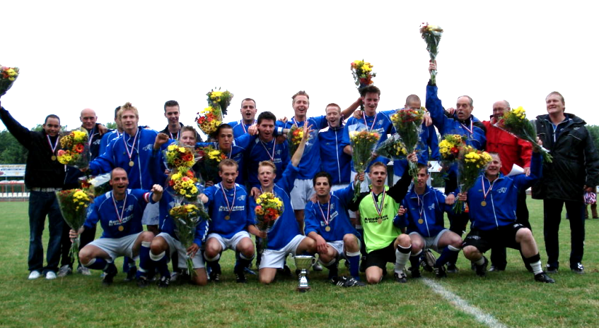 Districtsbekerwinst 2008